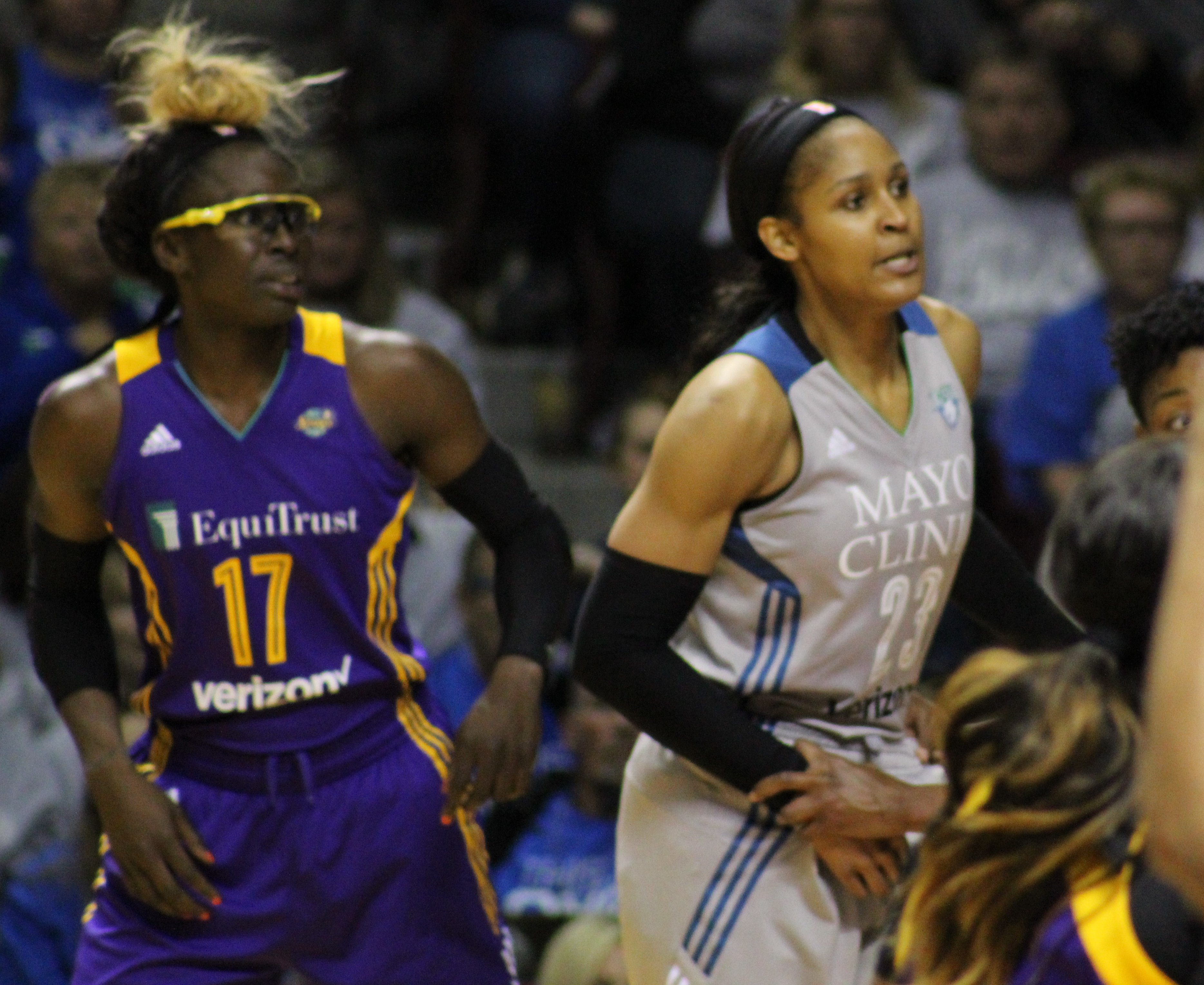 Essence Carson (left), Maya Moore, and Alana Beard during game 5 of the 2017 WNBA Finals